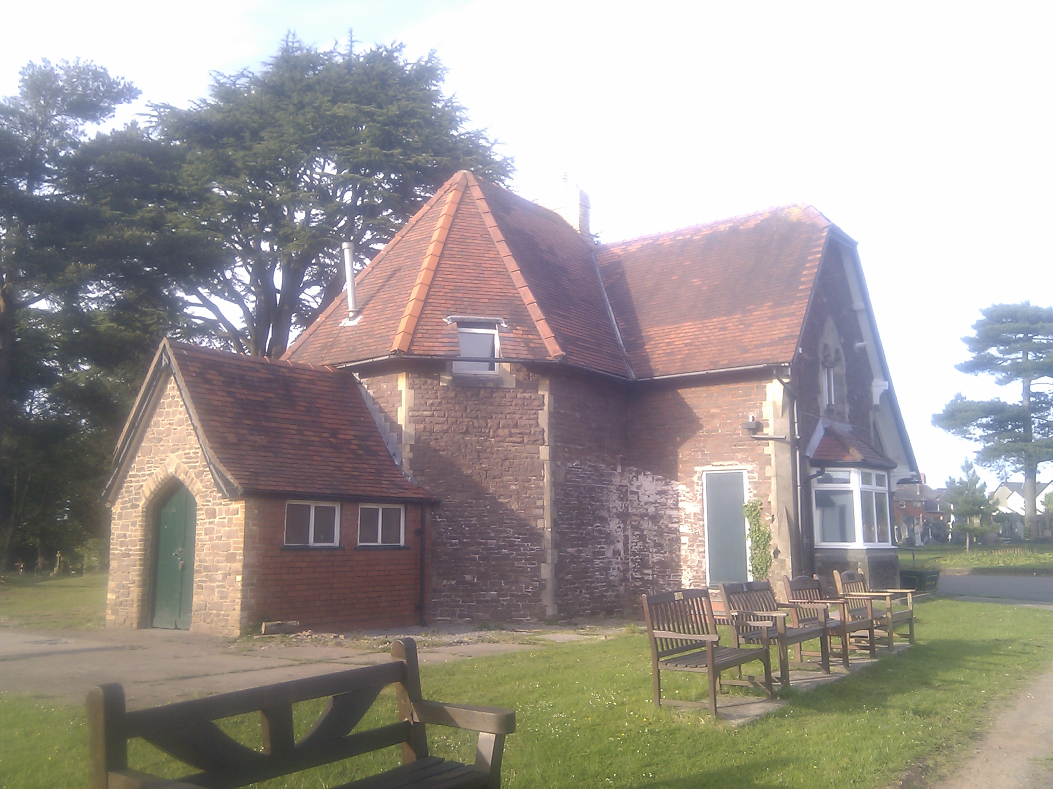 The Lodge in St Woolos Cemetery, Newport taken by myself on 25 May 2011.